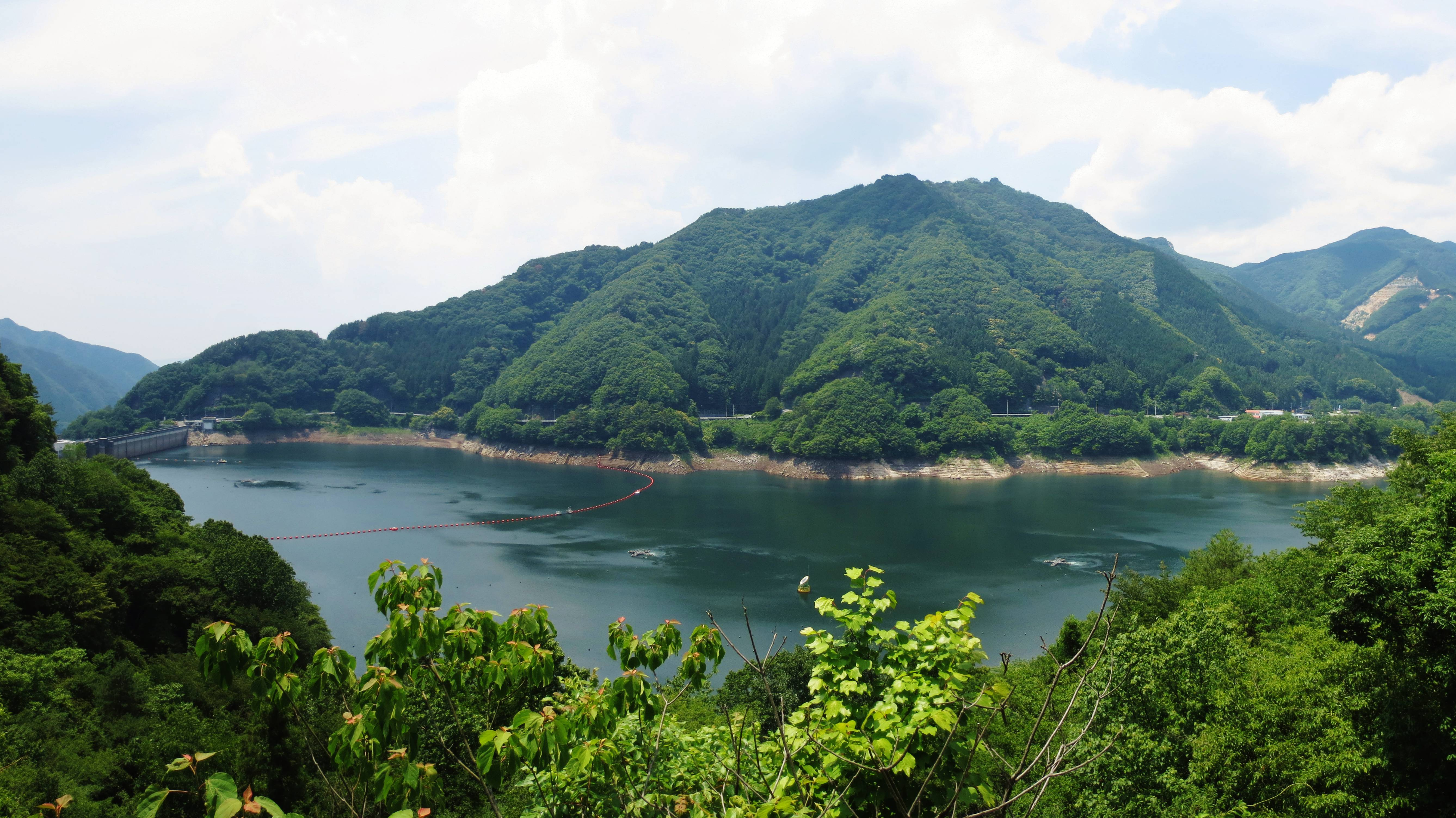 Kusaki Dam lake.